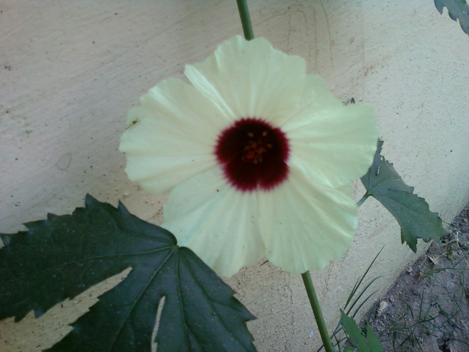 Hibiscus cannabinus at Ponduru, Srikakulam district